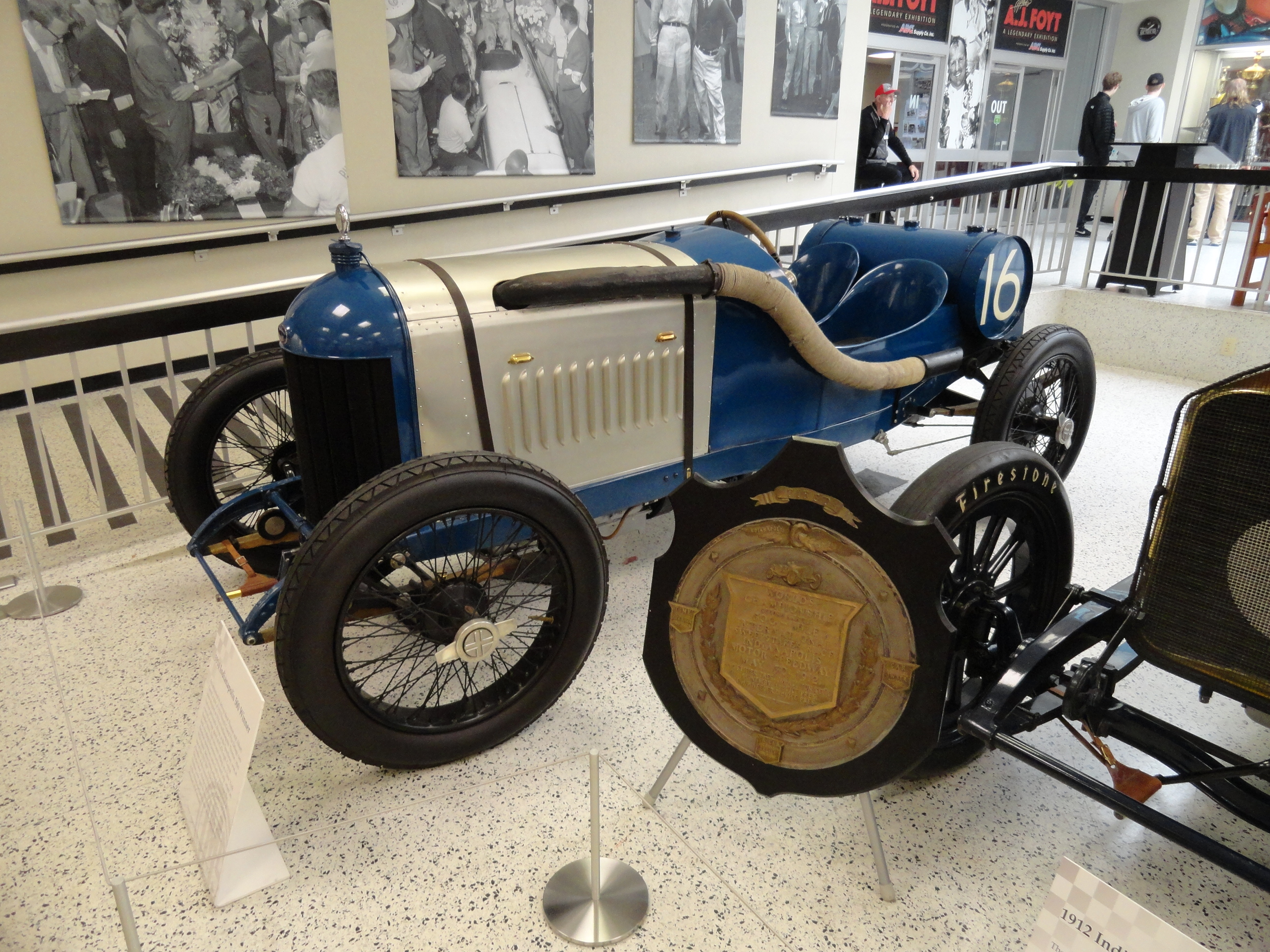 Indianapolis Motor Speedway Museum